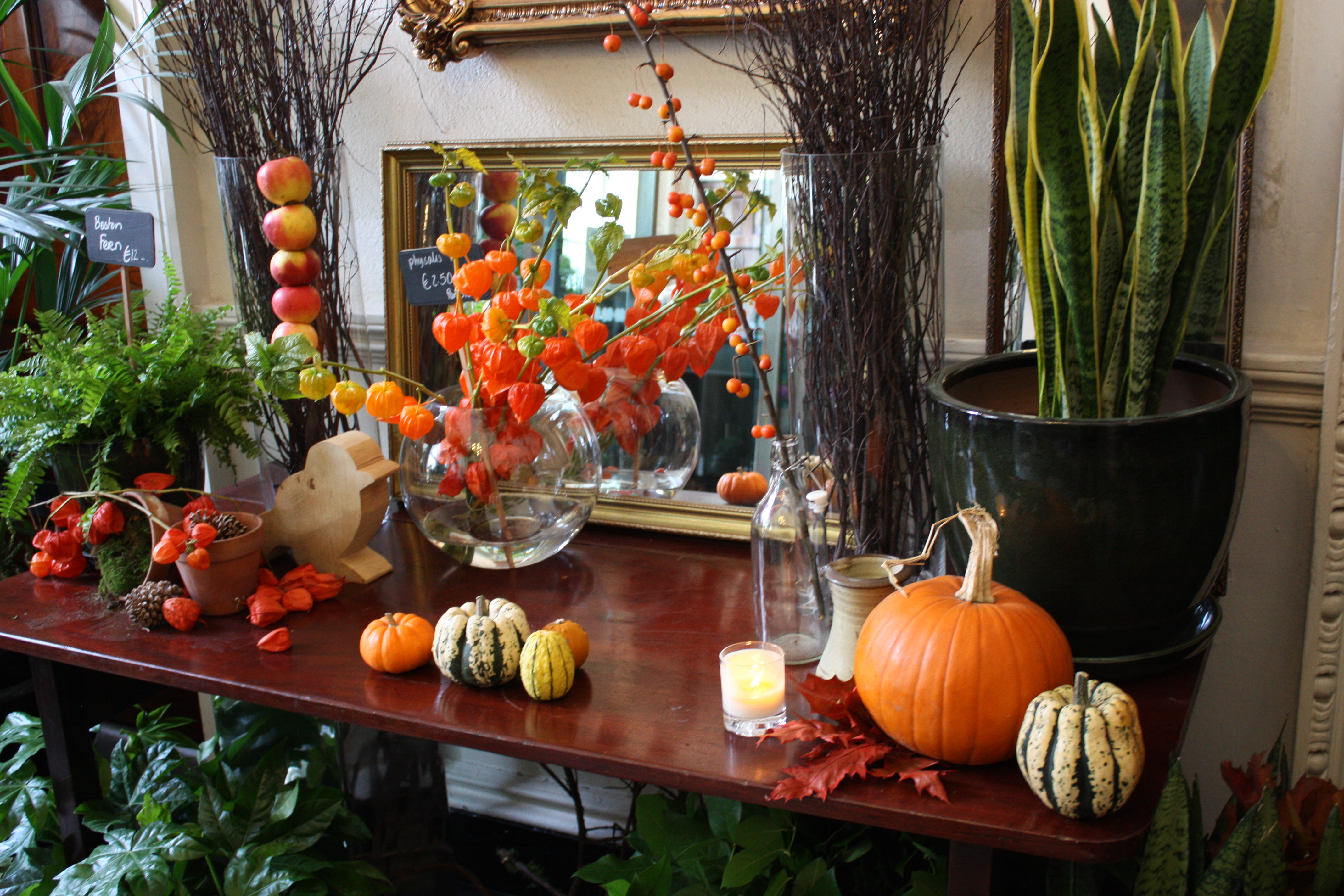 The Garden Shop, Powerscourt Centre, Powerscourt House, South William Street, Dublin, Republic of Ireland, October 2010